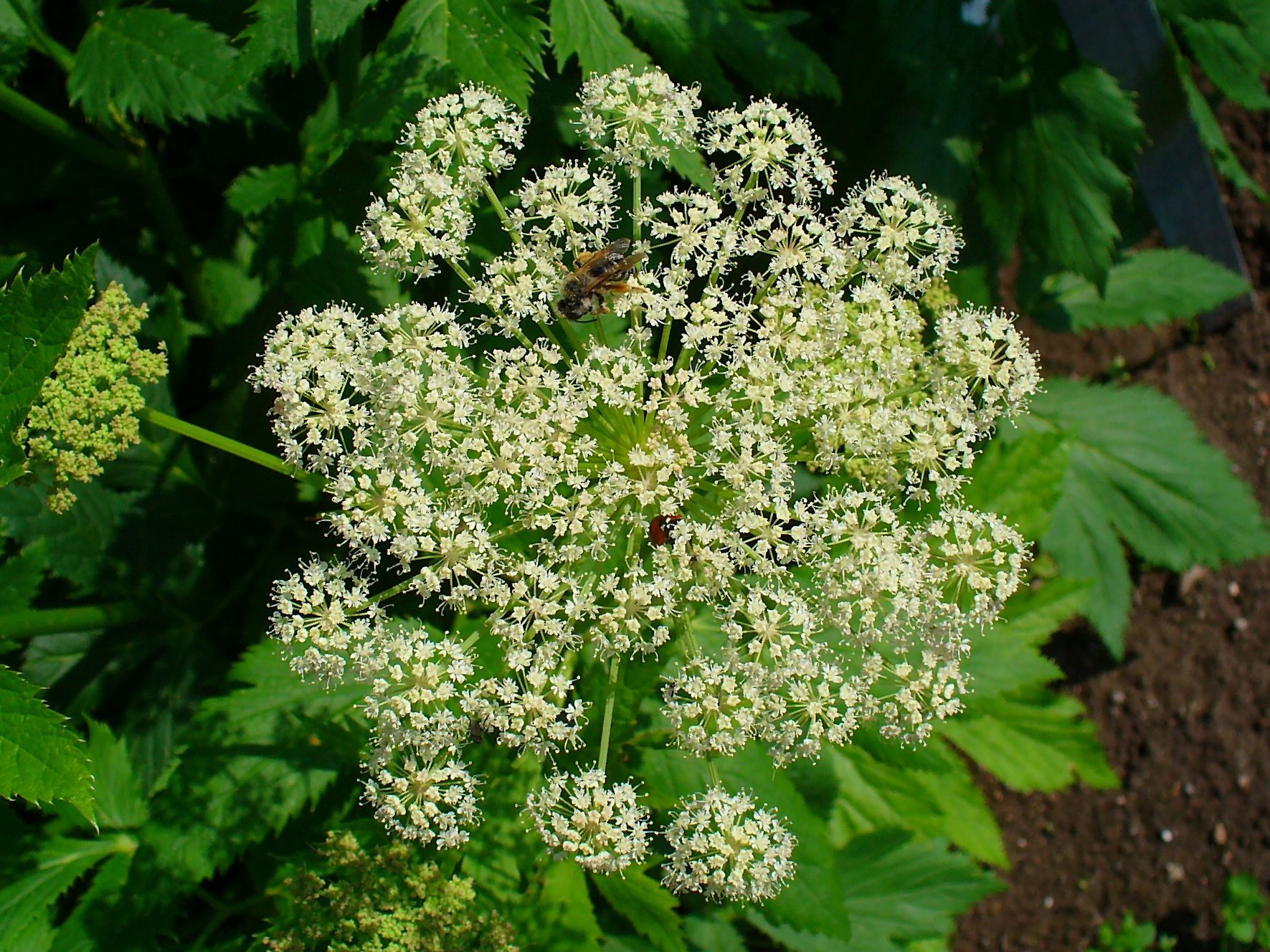 Peucedanum ostruthium, Apiaceae, Masterwort, inflorescence.